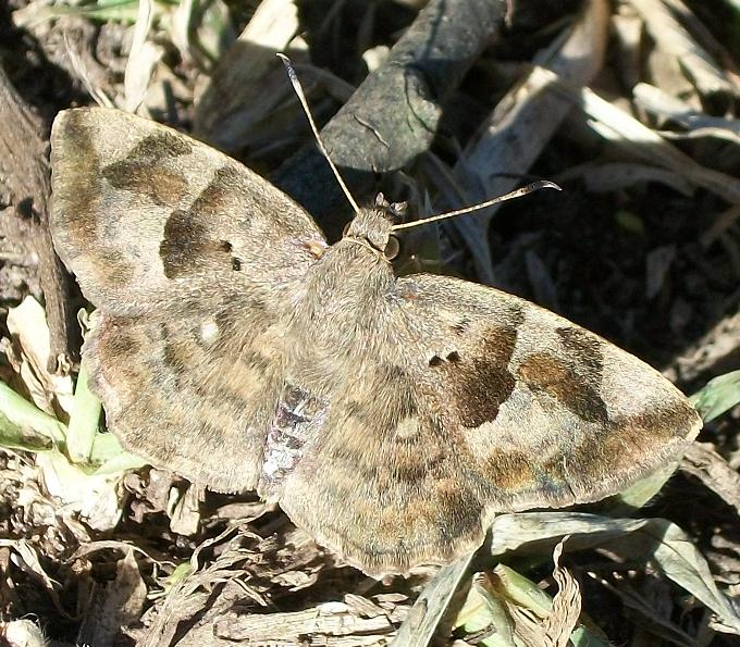 Dry season form of an Elfin skipper at Umdoni Bird Sanctuary, KwaZulu-Natal